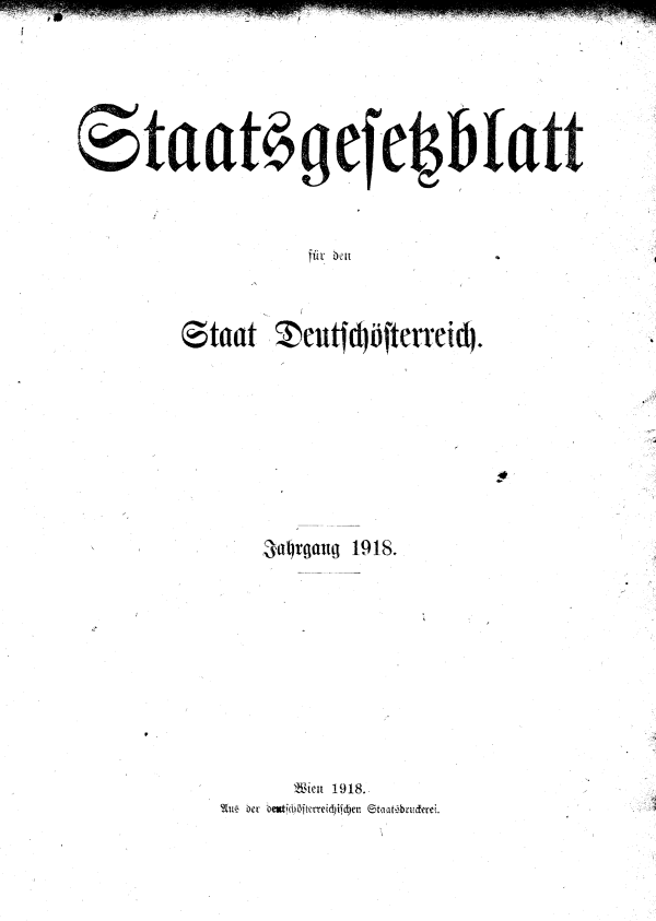 First page of the "Staatsgesetzblatt für den Staat Deutschösterreich" (State Law Gazette for German Austria) from 1918